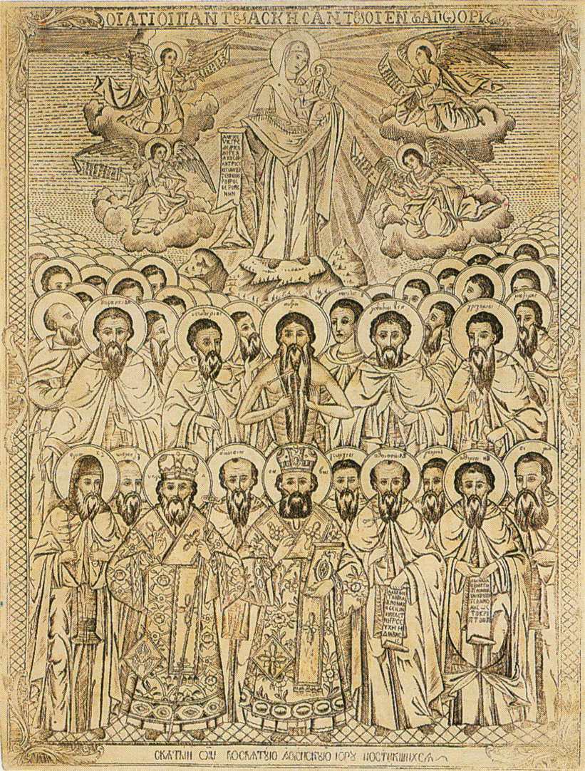 Saints of Mount Athos icon in Siminopetra